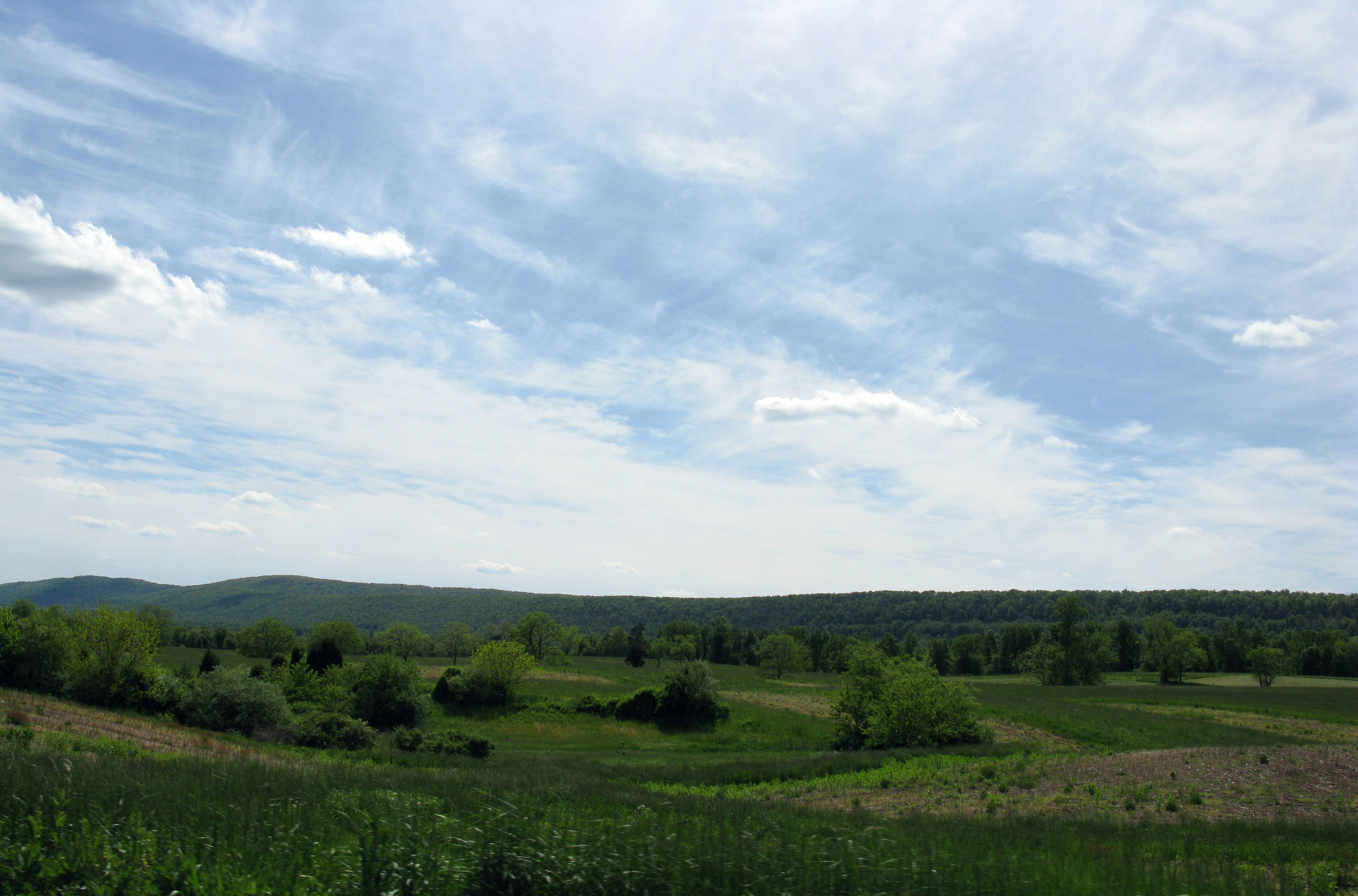 SR 643 near Moss Road, Brush Creek Township, Pennsylvania